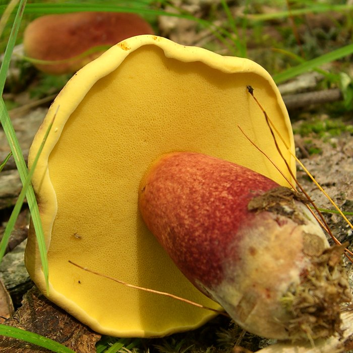 Scientific Name: Boletus bicolor Common Name: Two-Color Bolete Certainty: positive (notes) Location: Central Appalachians; George Washington NF; Shenandoah Mt